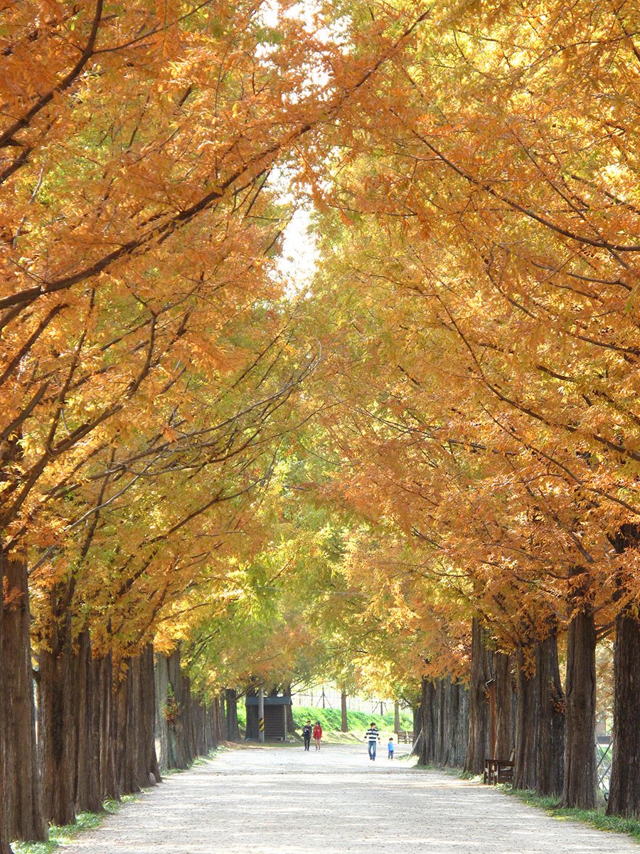 Metasequoia Forest on Street Tree Road, Damyang, Jeolla province, South Korea